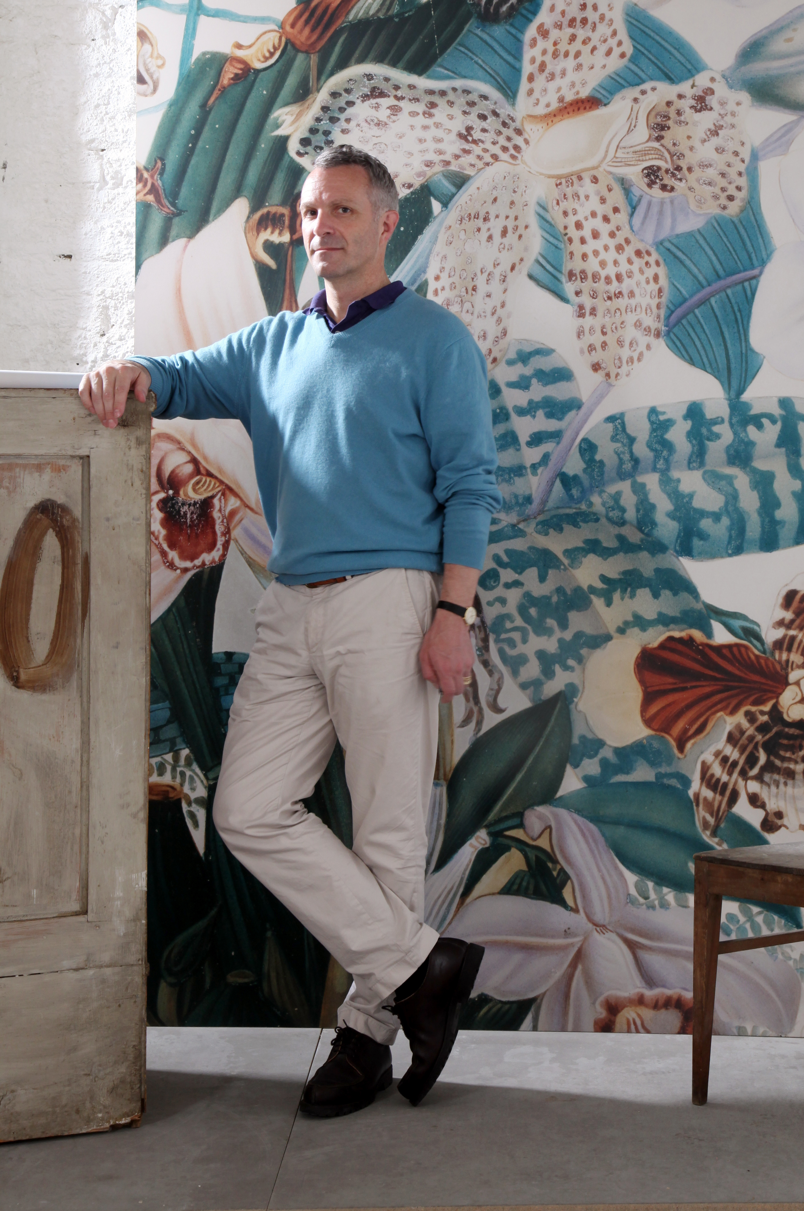 Artist Michael Huey in his Vienna studio